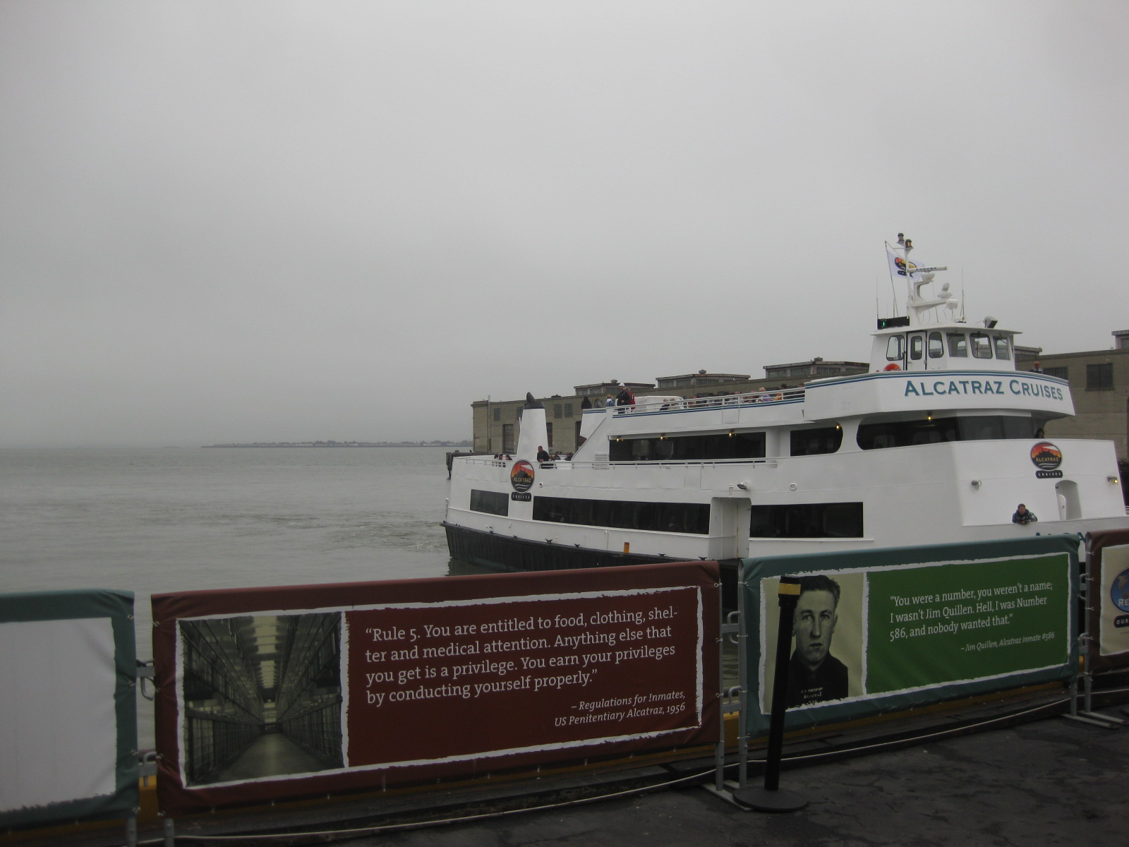 Alcatraz Cruises ferryboat on Pier 33, before departing.